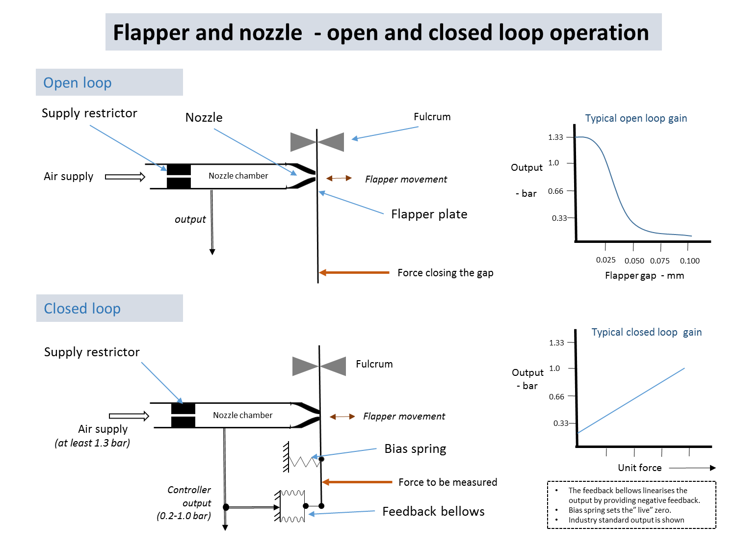 Basic mechanism of nozzle and flapper pneumatic displacement detector. Used extensively in pneumatic measurement and control. The mechanism is a very high gain device which become a linear amplifier when negative feedback is applied.